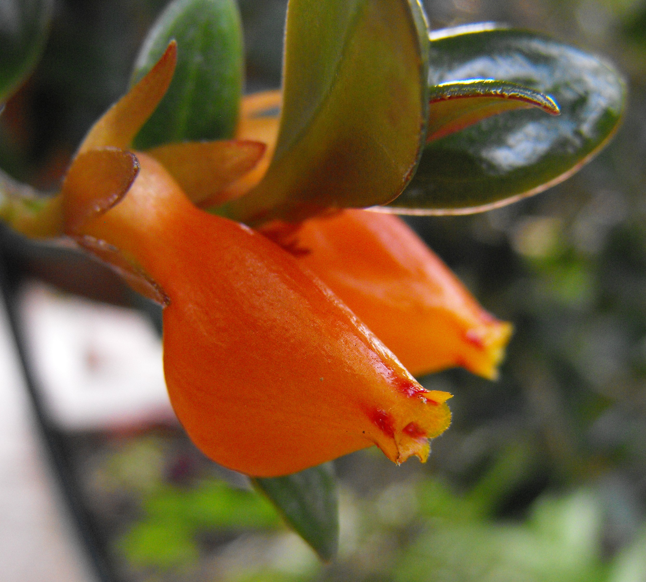 Nematanthus wettsteinii in the Botanical Building at Balboa Park in San Diego, California, USA.